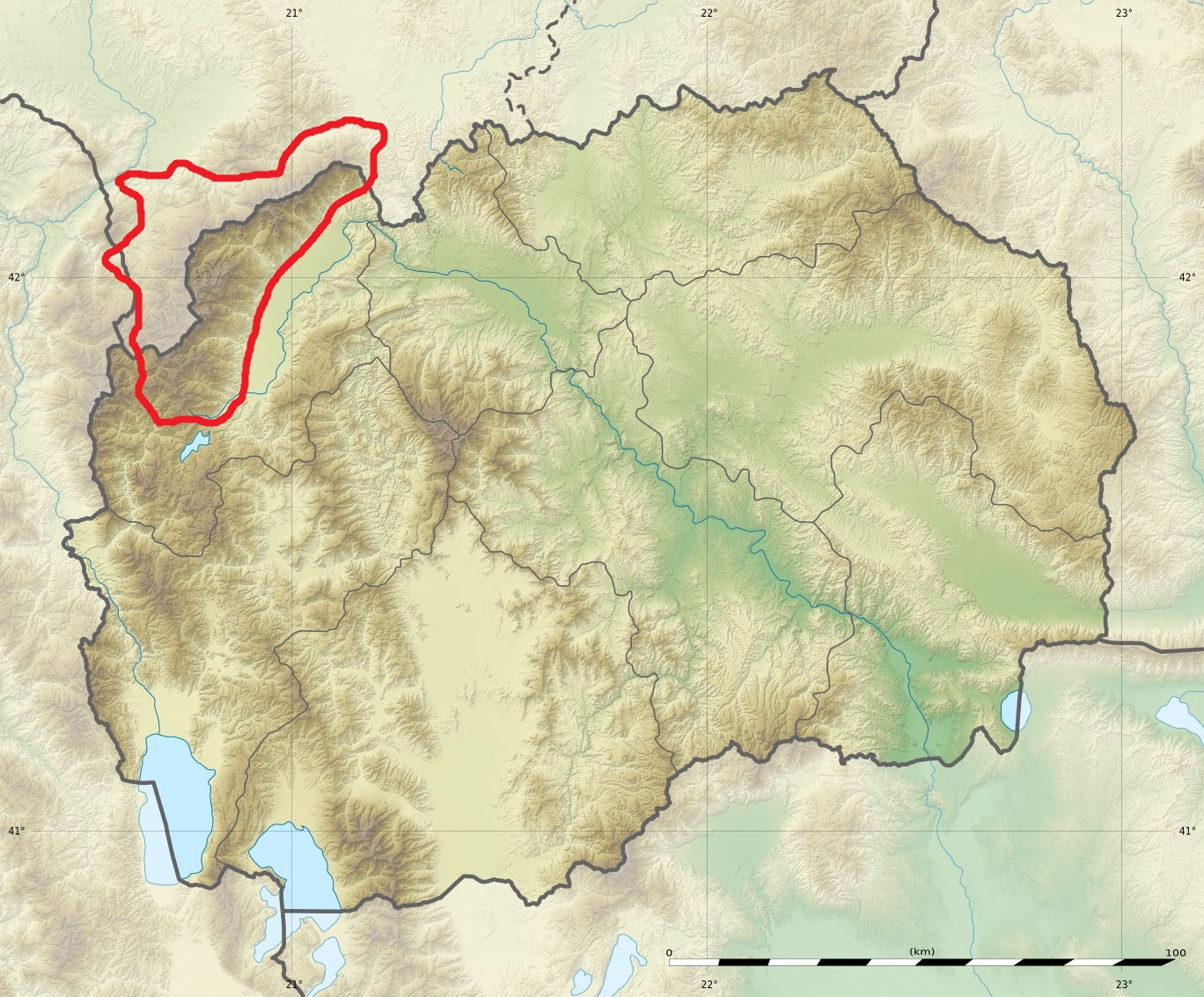 Physical map of the Šar Mountains in the Republic of Macedonia.